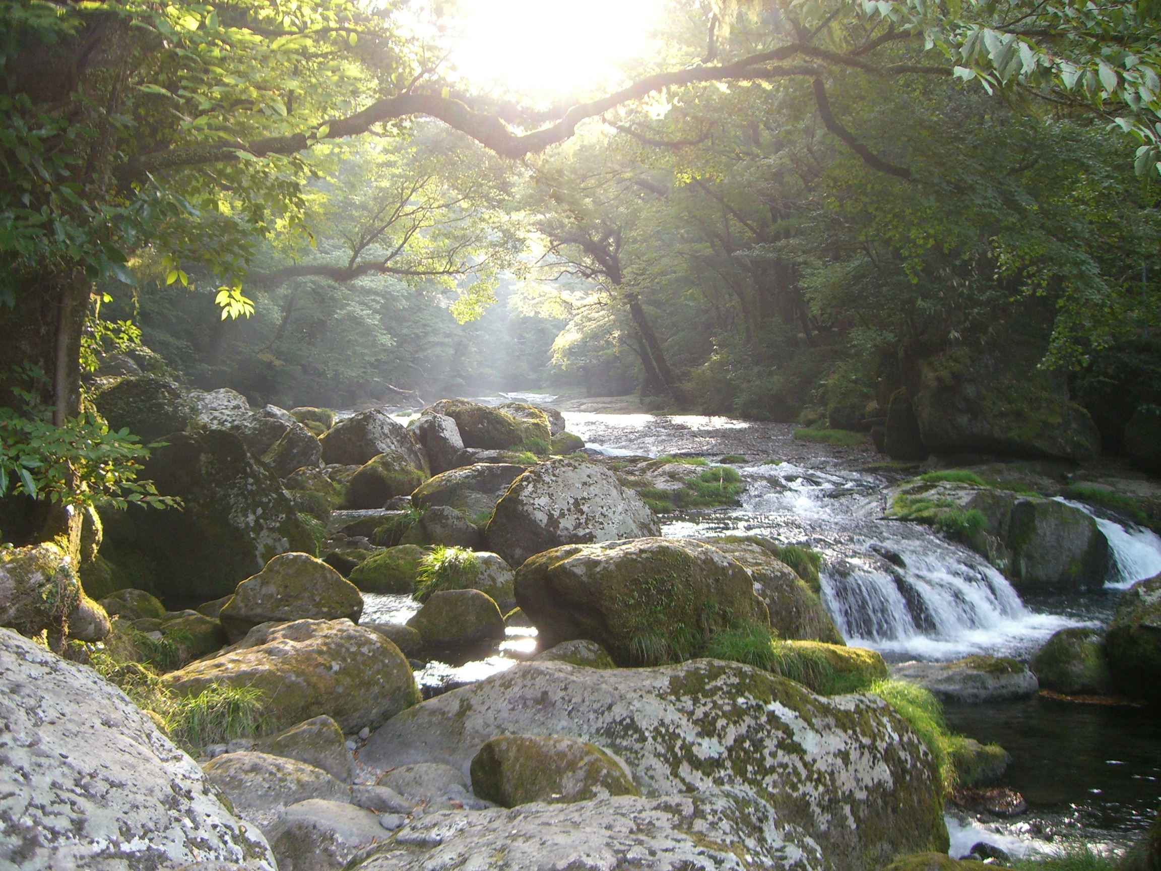 kikuchi-keikoku